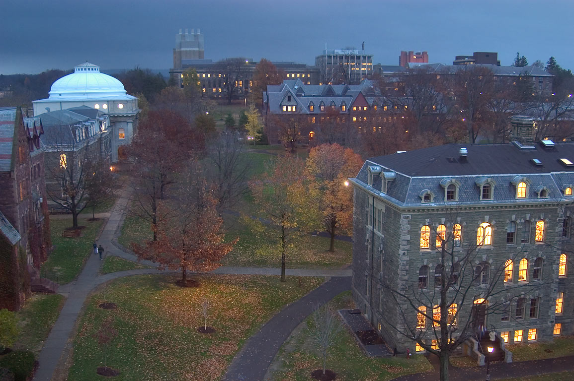 Arts Quad of Cornell University